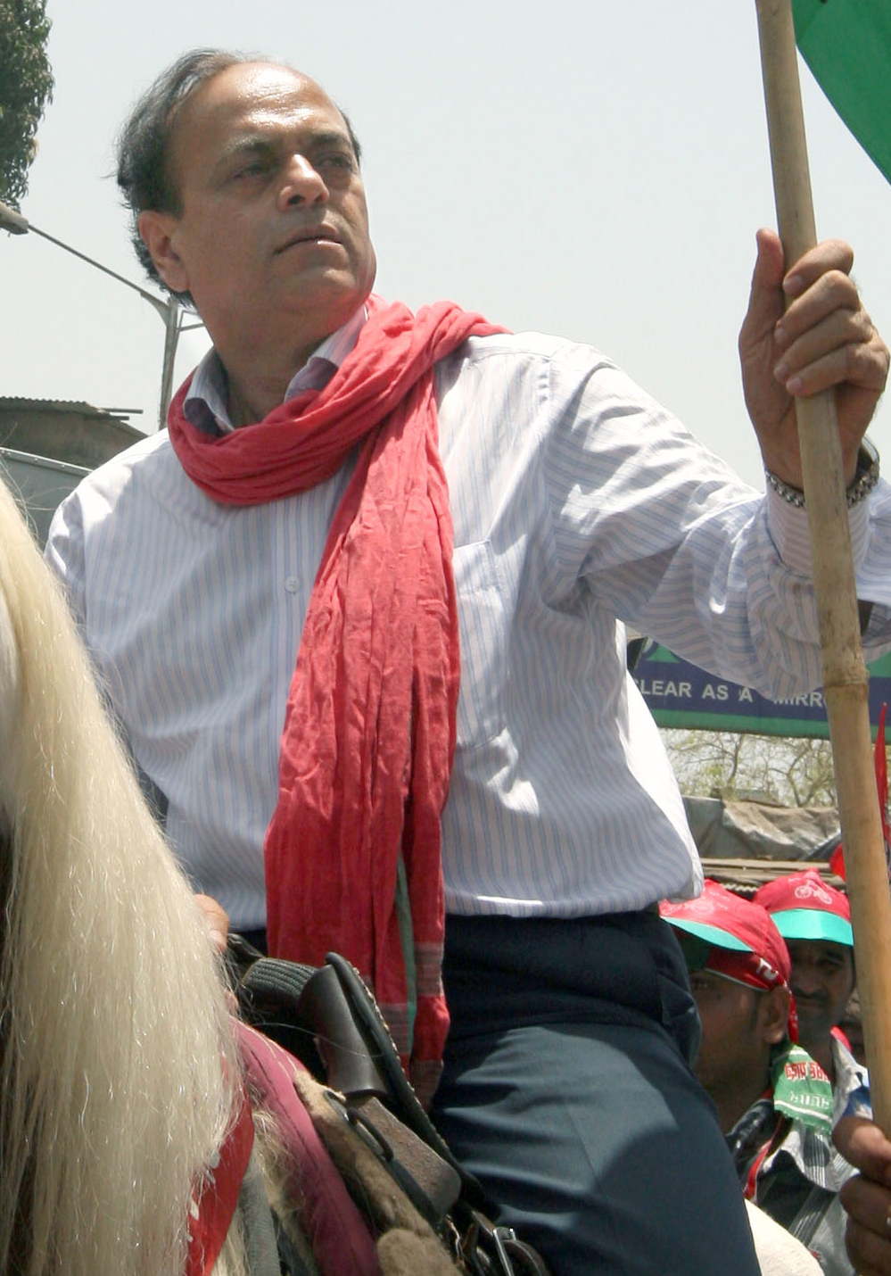 Abu Azmi campaigning in Mumbai for 2009 general elections.